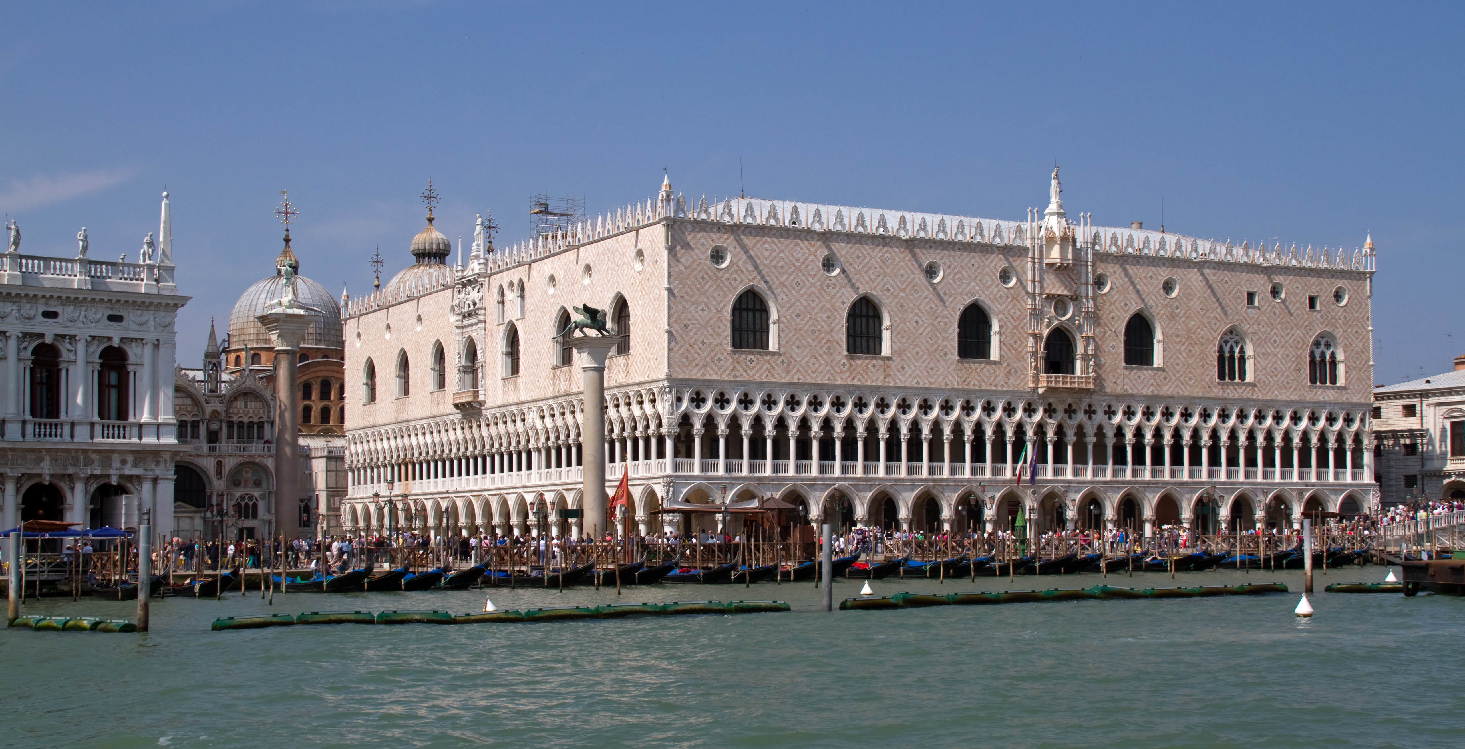 Doge's Palace 1